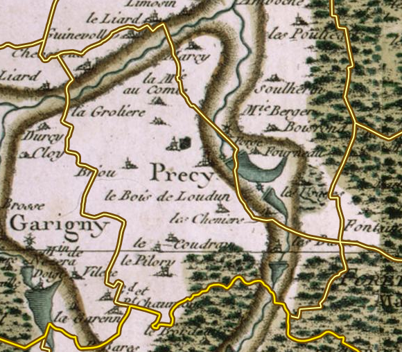 18th century Cassini map of Précy village in east of the Cher departement, France. The present limits of communes are indicated in yellow.